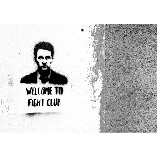 “ Welcome to Fight Club ” Graffiti of Edward Norton in Viladecans, Catalonia, Spain ispired by the film Fight Club.